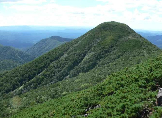 Gora Spamberg